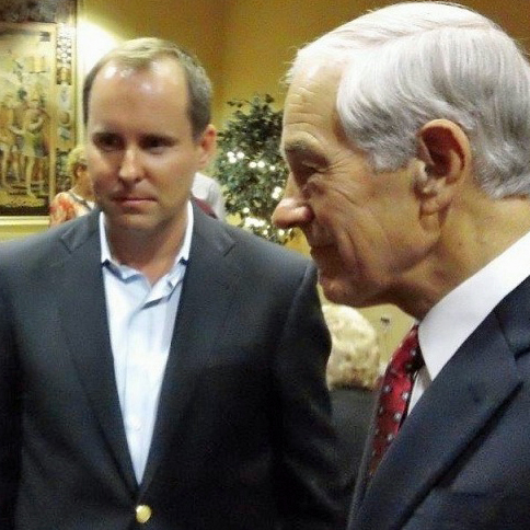 Photo taken of Austrian economist/investor Mark Spitznagel and Presidential candidate Ron Paul in 2012